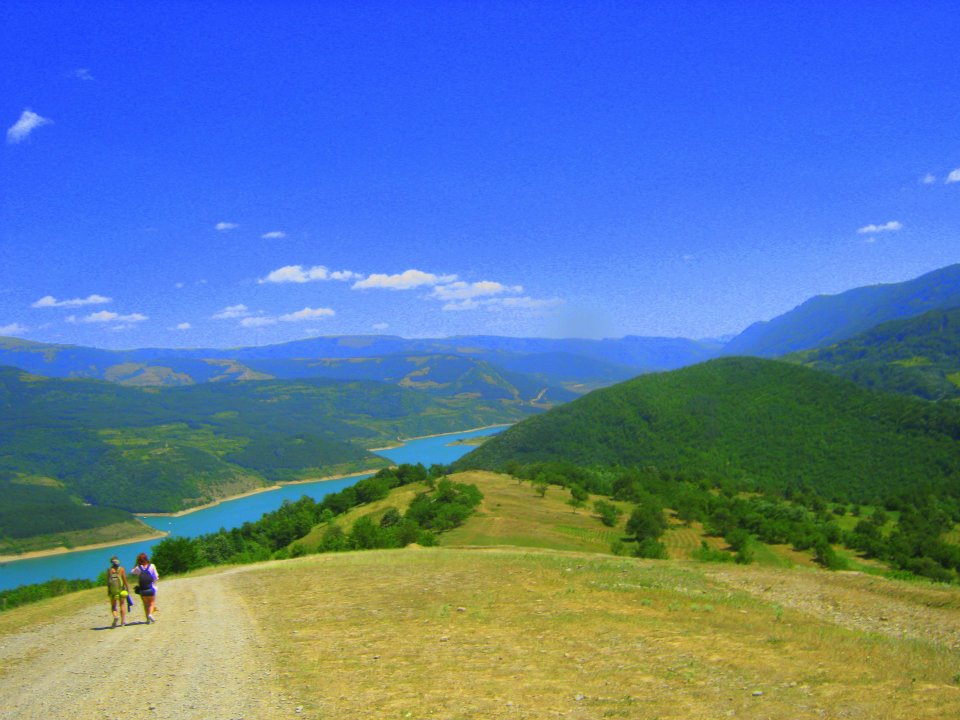 The lake of Zavoj, close Pirot; It is a manmade lake